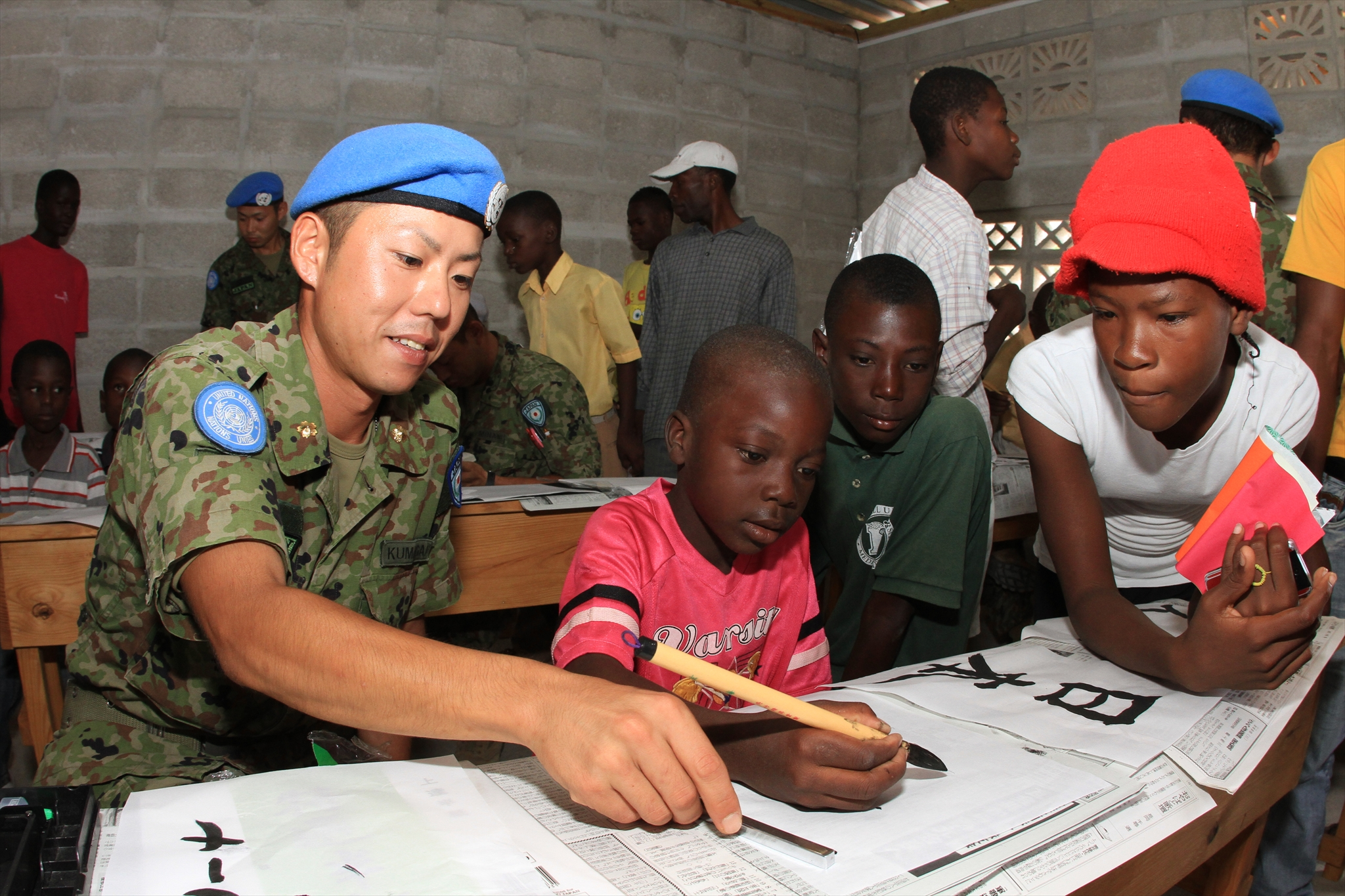 Title 2D-OO-2 (ハイチ)_R.JPG Album 国際平和協力活動等（及び防衛協力等） 国連ハイチ安定化ミッション 現地住民との交流